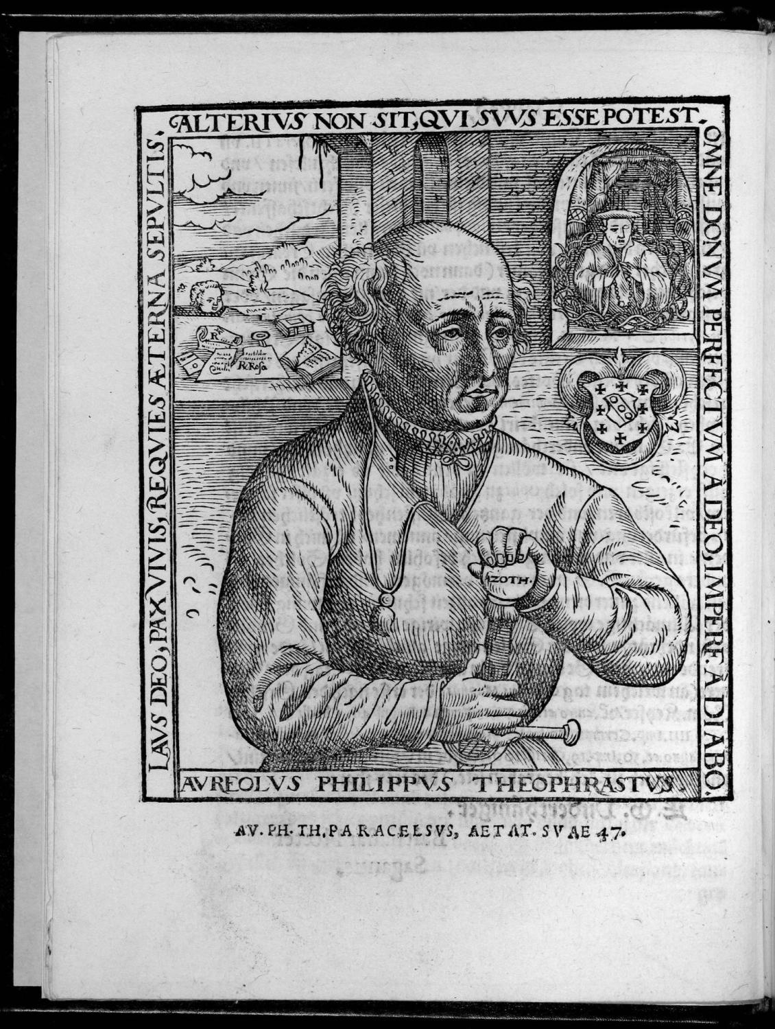 The "Rosicrucian" portrait of Paracelsus (1567), a modification of the 1540 Hirschvogel portrait. Literature: Walter Pagel, Paracelsus: An Introduction to Philosophical Medicine in the Era of the Renaissance, Karger Medical and Scientific Publishers (1982), p. 235. The image was published in the "Paracelsianist" work Philosophiae magnae Paracelsi (Heirs of Arnold Birckmann , Cologne 1567). The artist is possibly Frans Hogenberg, acting under the directions of Theodor Birckmann (1531/33–1586). This is the first image in which Paracelsus' sword has the word Azoth inscribed on the pommel, and the first to show his attributed coat of arms. Shown in the background are Rosicrucian symbols, including the head of a child protruding from the ground symbolising rebirth. AUREOLUS PHILIPPUS THEOPHRASTUS. LAUS DEO, PAX VIVIS, REQUIES AETERNA SEPULTIS. ALTERIUS NON SIT, QUI SUUS ESSE POTEST. OMNE DONUM PERFECTUM A DEO, IMPERF. A DIABO. AV. PH. TH. PARACELSUS, AETAT. SUAE 47.